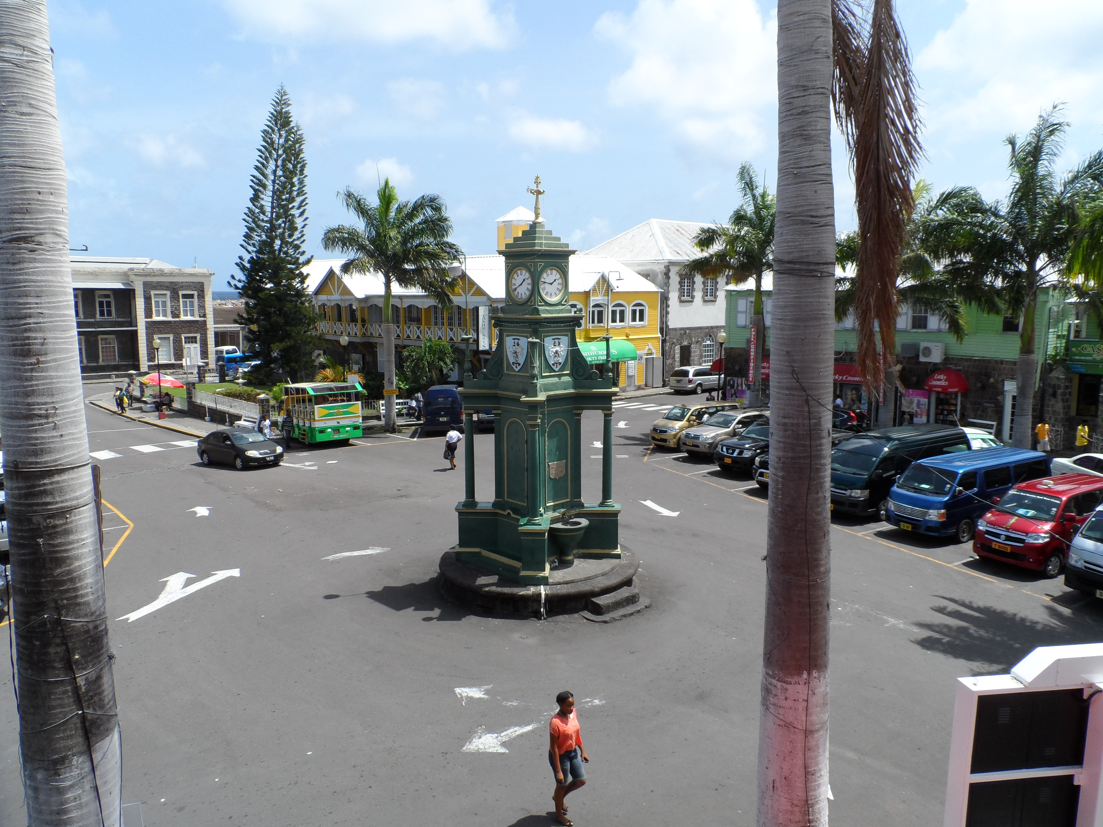 The Circus road junction in Basseterre, Saint Kitts and Nevis as seen from the Ballahoo restaurant